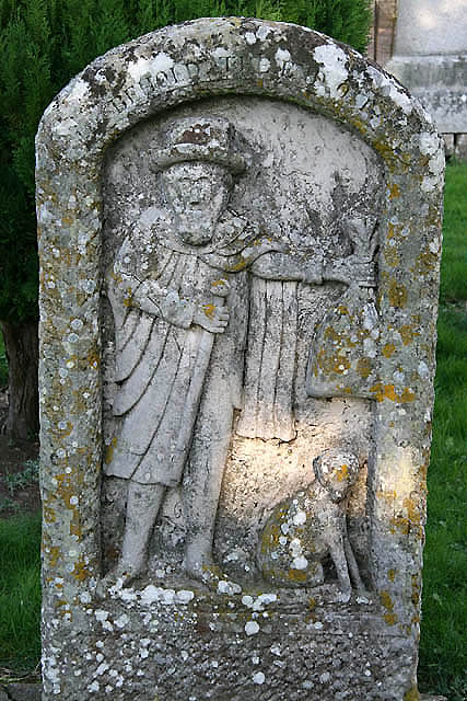 The gravestone of the Gentleman Beggar This gravestone in Roxburgh Parish Churchyard is in memory of Andrew Gemmels, ‘Edie Ochiltree’ of Sir Walter Scott’s novel, The Antiquary. Gemmels died at the age of 106 after spending his early life as a soldier and then as a wandering beggar. He is depicted with his stick, bag and dog. The inscription on the reverse side of the stone reads:- THE BODY OF THE GENTLEMAN BEGGAR ANDREW GEMMELS Alias EDIE OCHILTREE WAS INTERRED HERE WHO DIED AT ROXBURGH NEWTOWN IN 1793 AGED 106 YEARS ERECTED BY W. THOMSON, FARMER OVER ROXBURGH 1849